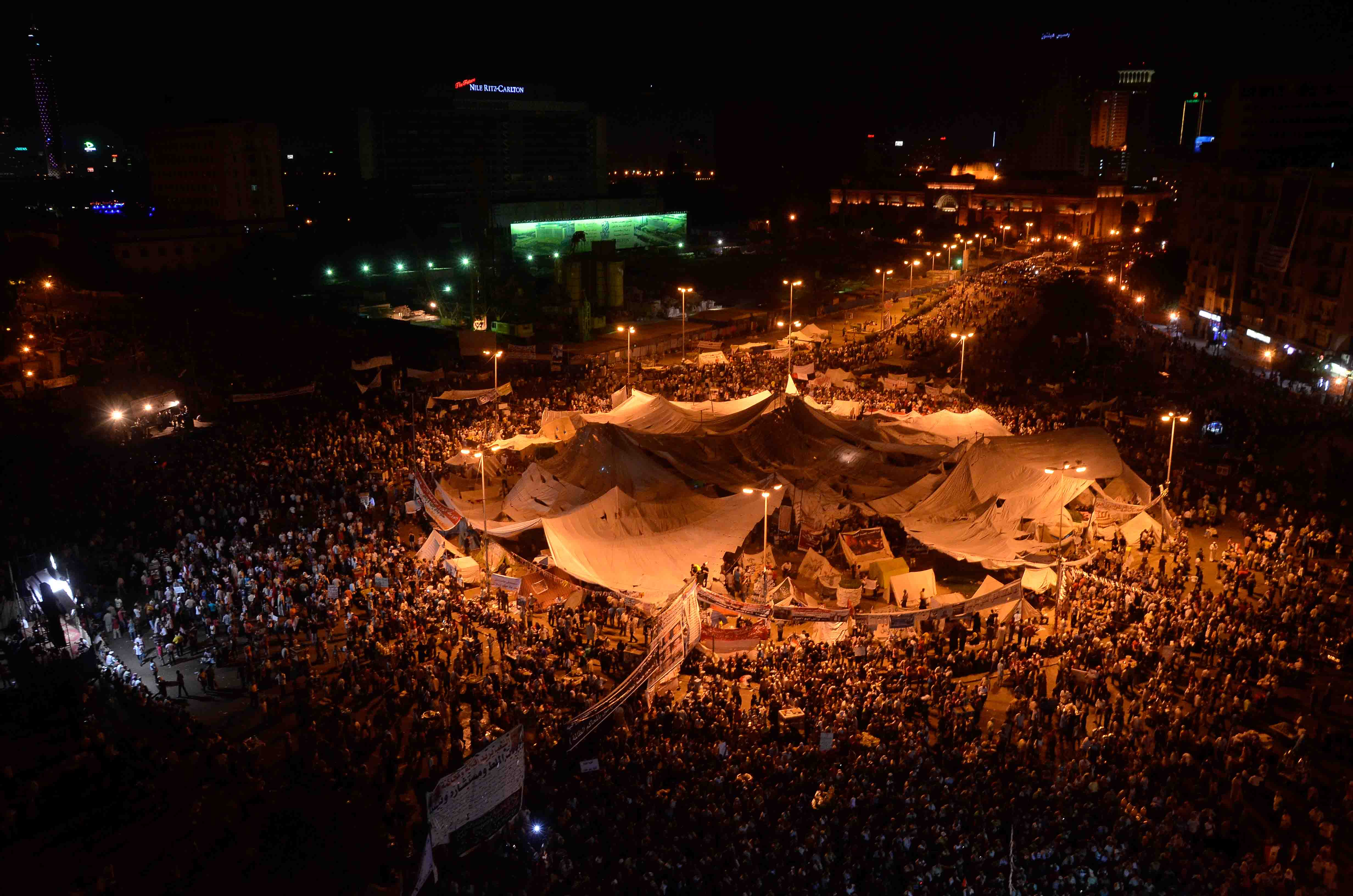 Tahrir Sq on July 15th